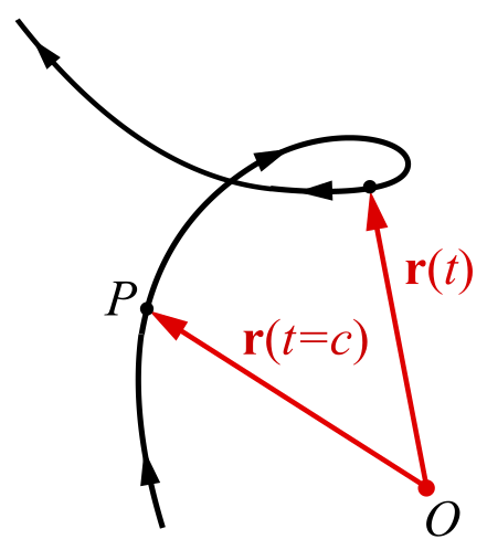 Curve in 3D